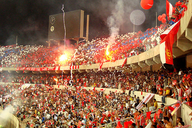 I did take this picture by my sony N2 Camera In 11 June Stadium ( Tripoli-Libya) During the CAF champions league match between Al Ittihad of Libya & Étoile Sportive du Sahel of Tunisia.